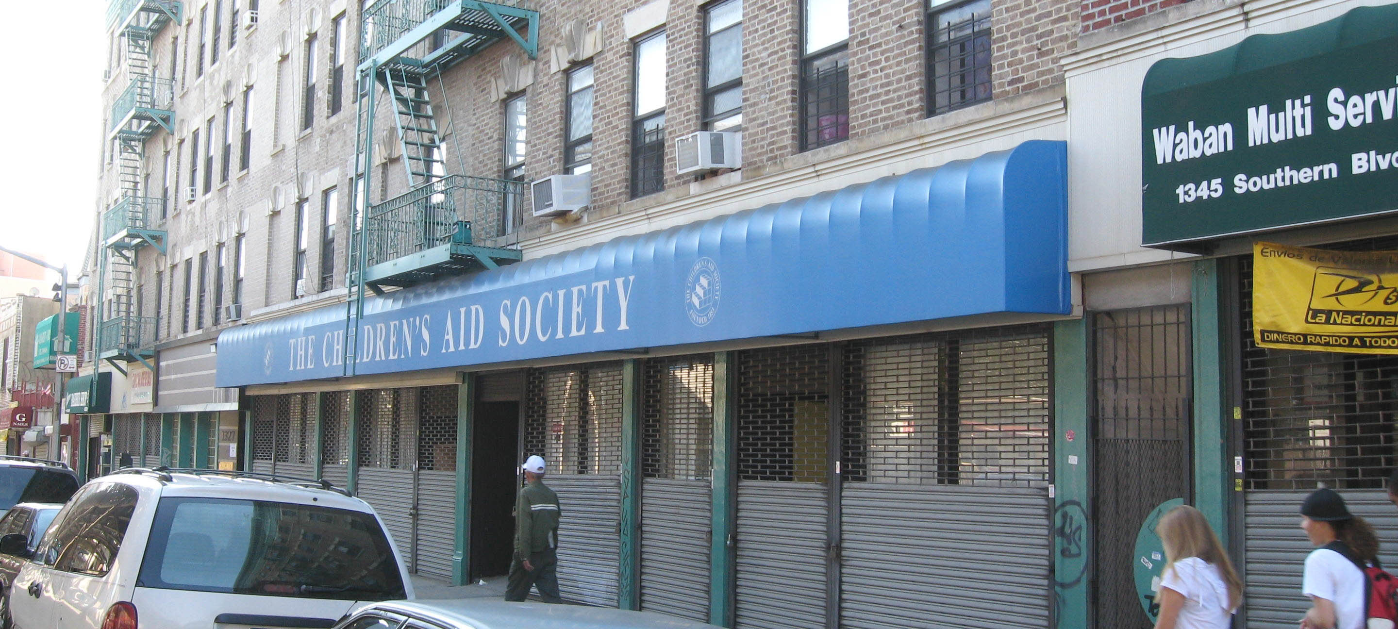 Looking southwest on Southern Boulevard in The Bronx at Children's Aid Society office on a sunny midday. ZIP 10459.